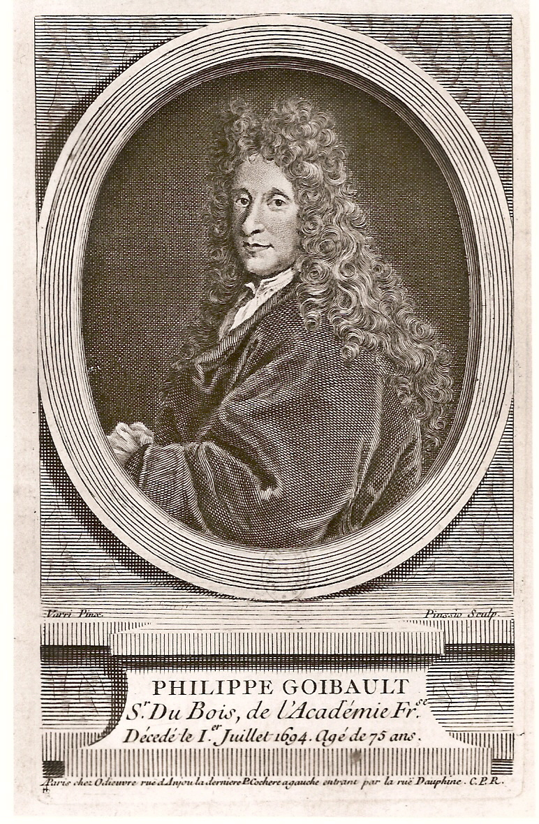 Engraving of Philippe Goibaut Du Bois by Pinssio of portrait painted by Varri, circa 1695